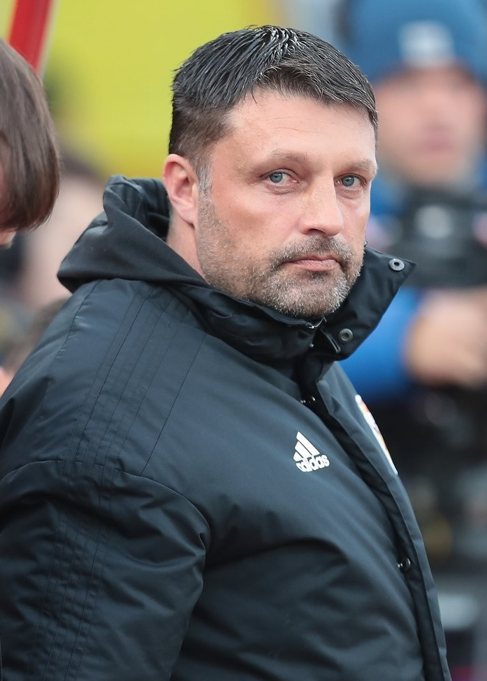 Igor Cherevchenko coaching FC Arsenal Tula in a game against FC Lokomotiv Moscow.